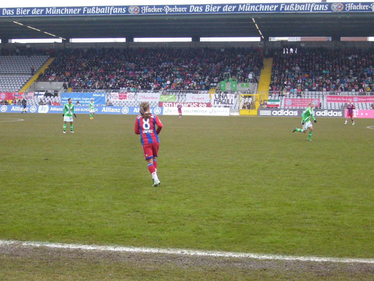 FC Bayern München (women) vs VfL Wolfsburg (women) on 22 February 2015 in front of 2721 spectators